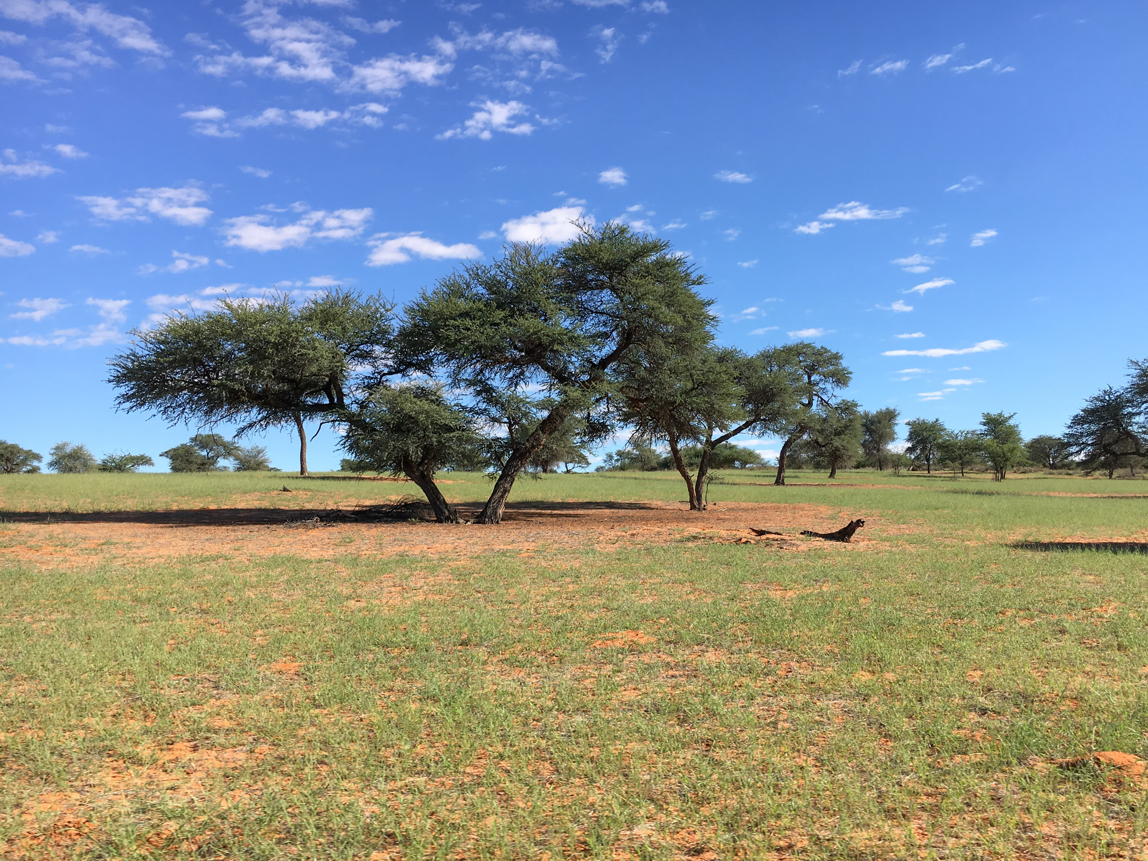 Green Kalahari (2018)